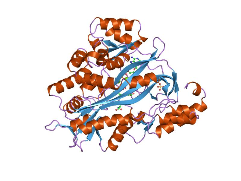 Cartoon representation of the molecular structure of protein registered with 2hgs code.